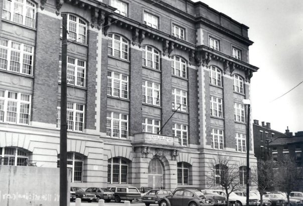 Old Woodward School building in Cincinnati, Ohio, home of the School for Creative and Performing Arts, as seen from Sycamore street facing East